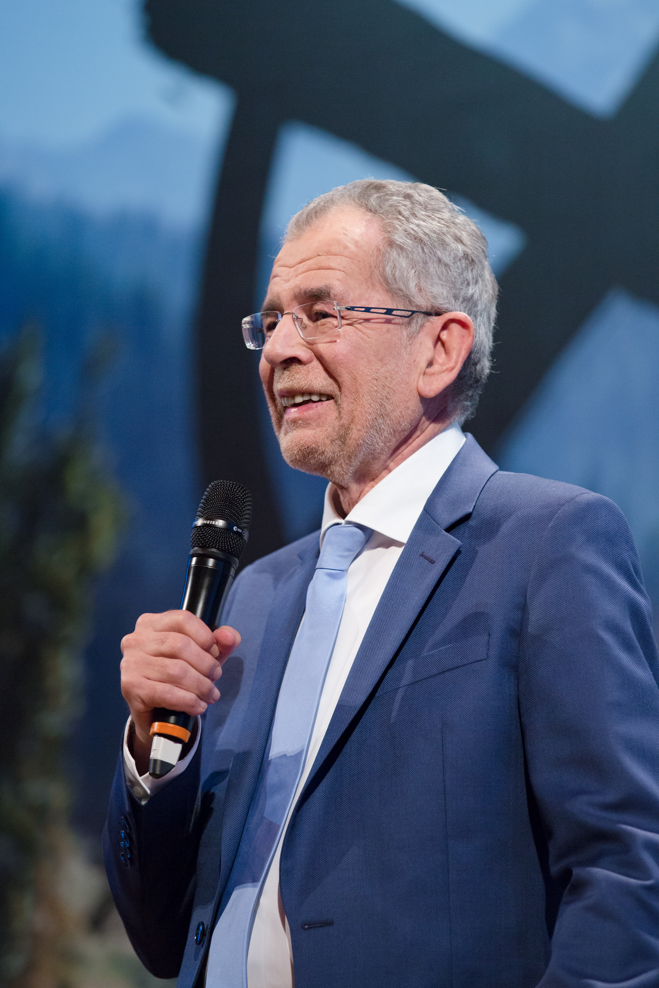 Alexander Van der Bellen at "Stimmen für Van der Bellen" ("Voices for Van der Bellen"), an event by artists supporting him at the Austrian presidential election 2016 (Konzerthaus, Vienna, Austria).